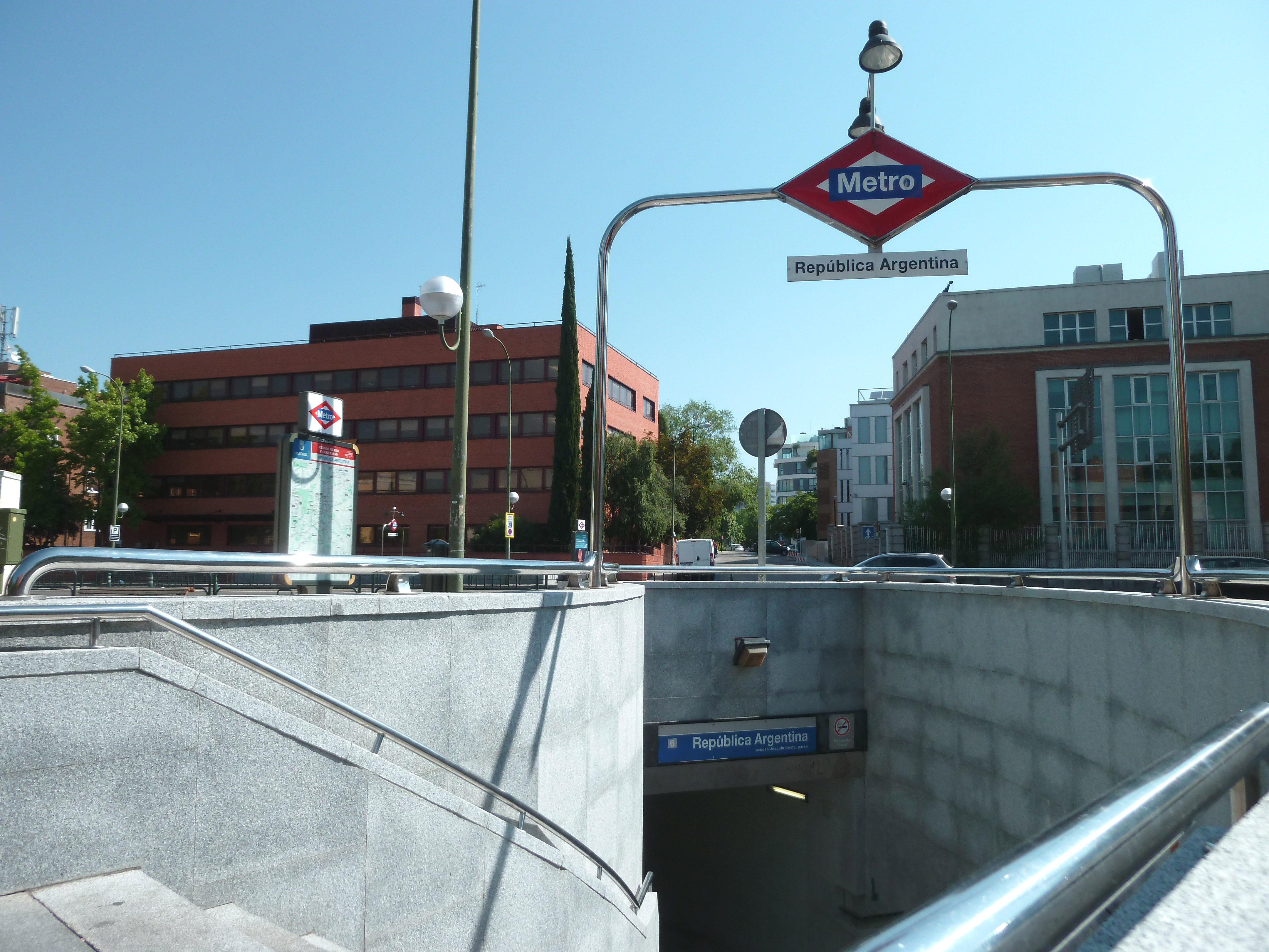 Entrance of República Argentina metro station in Madrid (Spain), at 26 Calle de Joaquín Costa (street) in Chamartín district.